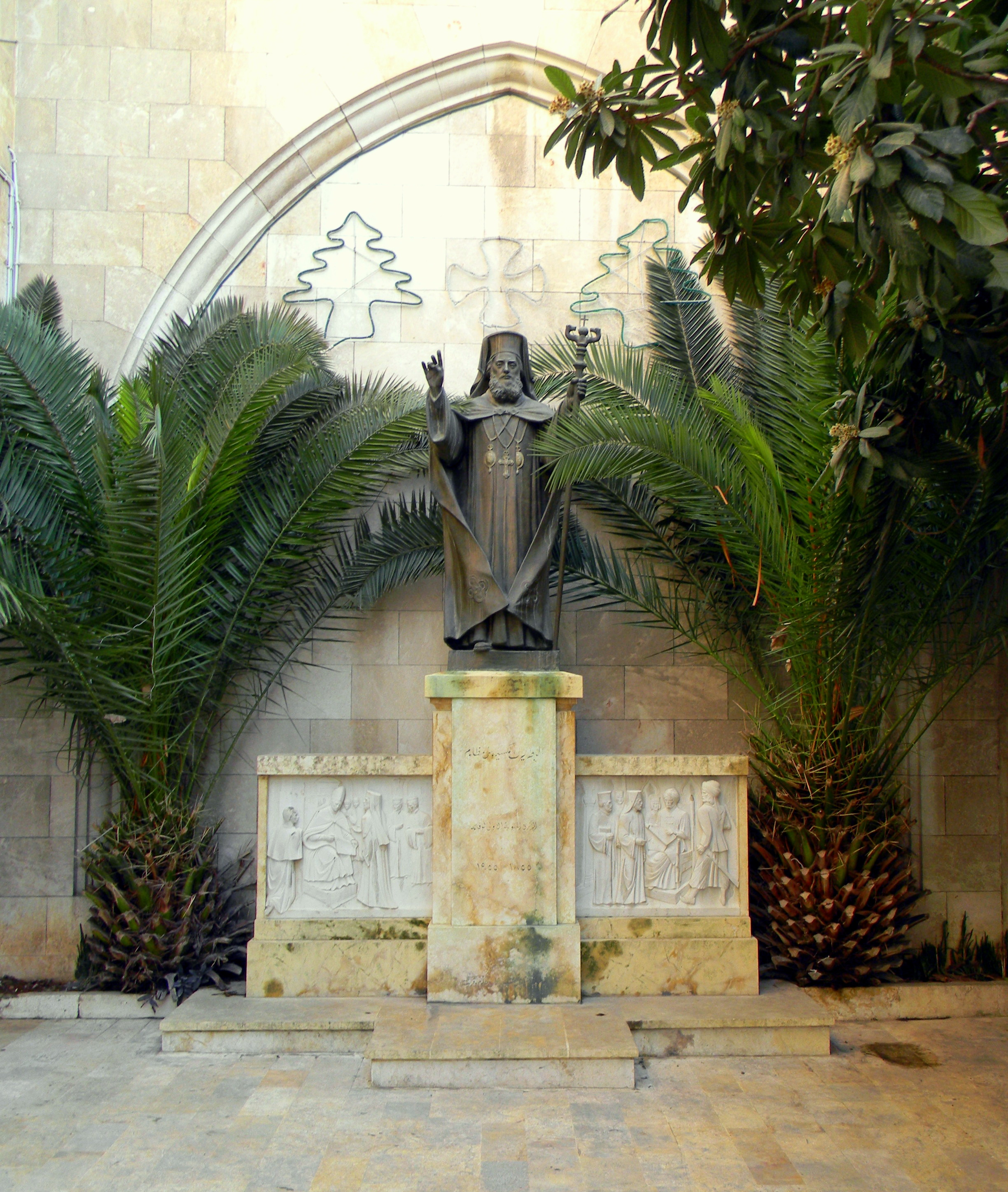 The statue of Patriarch Maximos Mazloum at the yard of Virgin Mary Greek Catholic Cathedral of Aleppo.